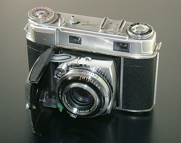 Kodac Retina IIIc